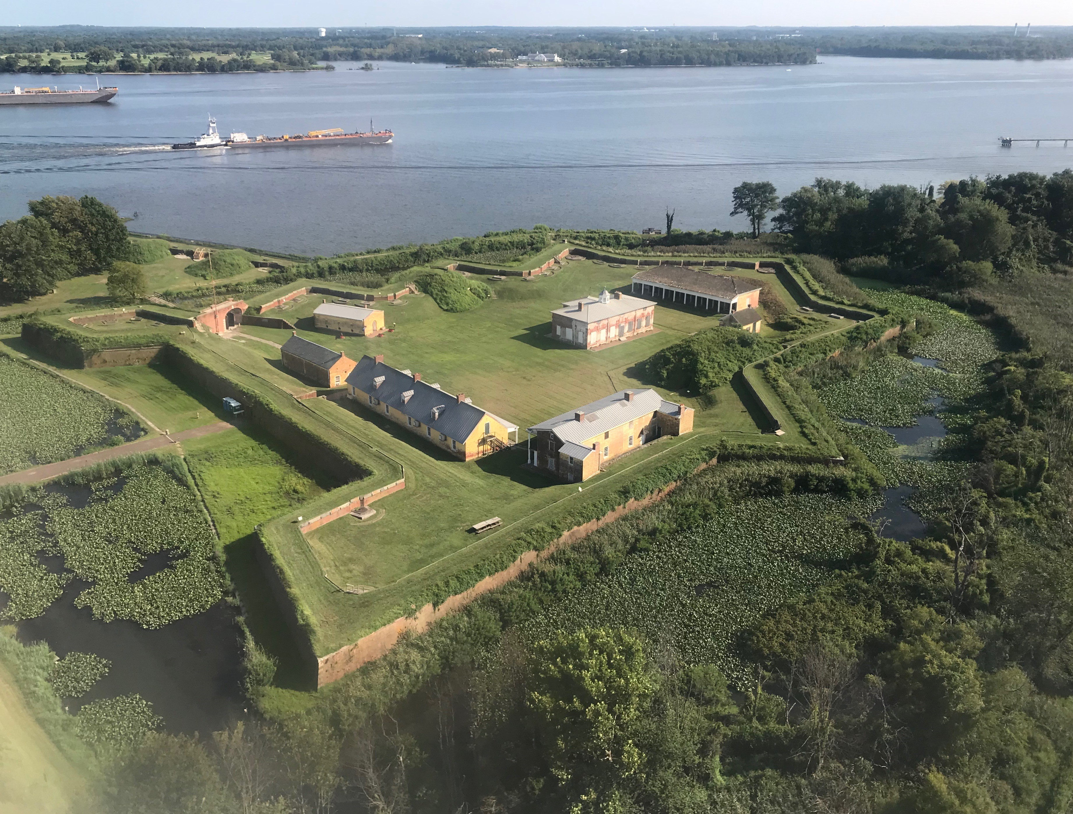 Aerial view of Fort Mifflin, Pennsylvania and the Delaware River from an airplane approaching runway 27R at Philadelphia International Airport.